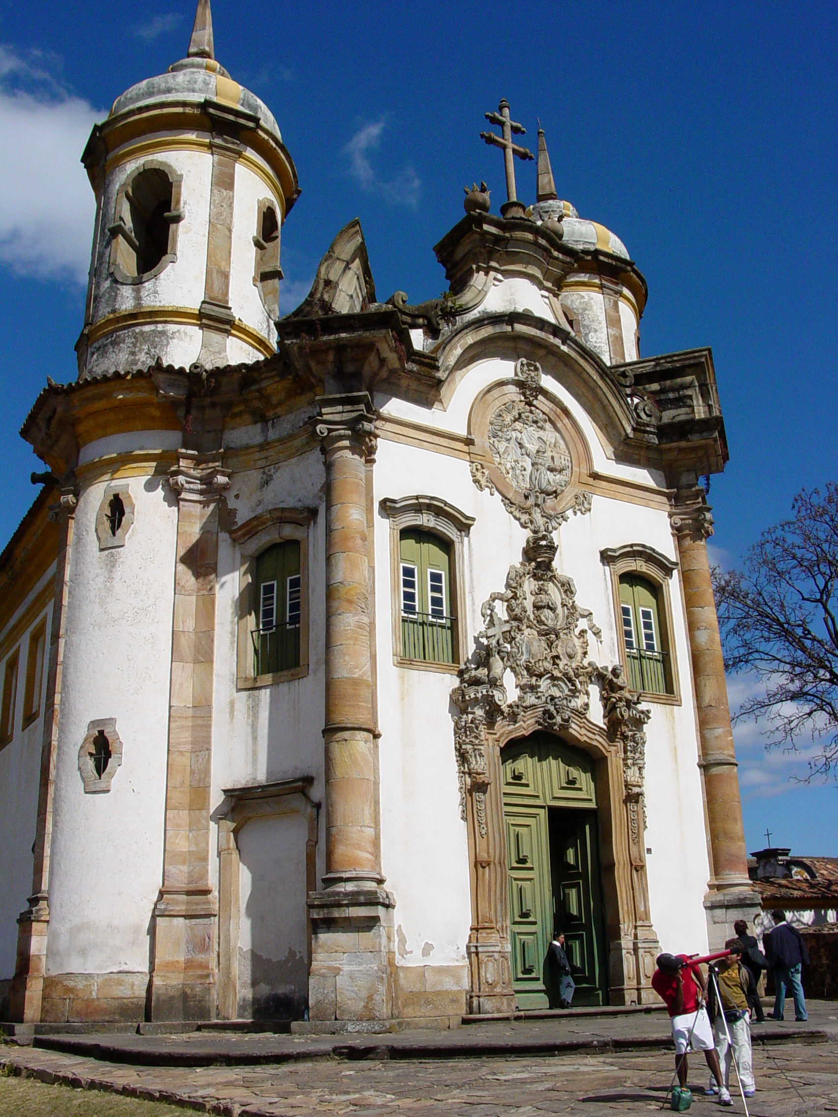 Church in Ouro Preto, Minas Gerais, Brazil. July 2006. Ouro Preto is the jewel in the crown of Minas Gerais's colonial towns. It was Brazil's wealthiest city during the 18th-century gold boom, and in 1931 the city fathers issued an edict that the town's architectural character had to be preserved -- i.e., no modern constructions would be permitted. Today it must stand as the most extensive colonial complex in the Americas, with the possible exception of the old city of Cartagena de Indias in Colombia (the most beautiful square mile on the face of the earth). Restoration continues apace, and far from feeling like a museum, Ouro Preto is also a major university town, with a youthful and vibrant ambience.